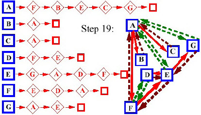 Dry run Depth-first search Algorithm in Graph, step 19